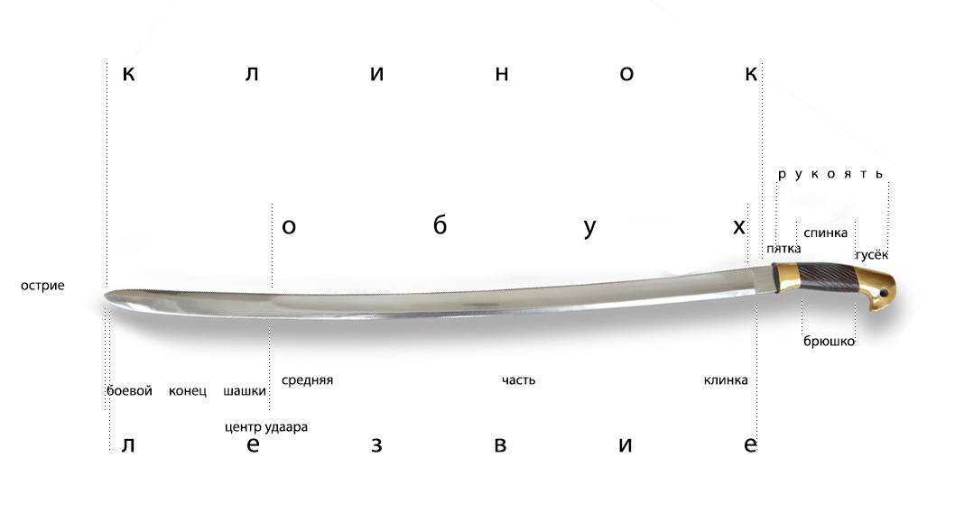 Reproduction of a Russian military 1881 pattern 'Cossack' shashka